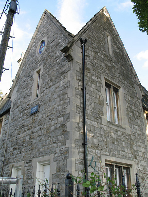 St Pancras and Islington Cemetery. Detail of the northern most gatehouse, showing the 'Ancient Lights' plaque on the wall. This probably explains why the adjacent empty plot has not been snapped up for development.